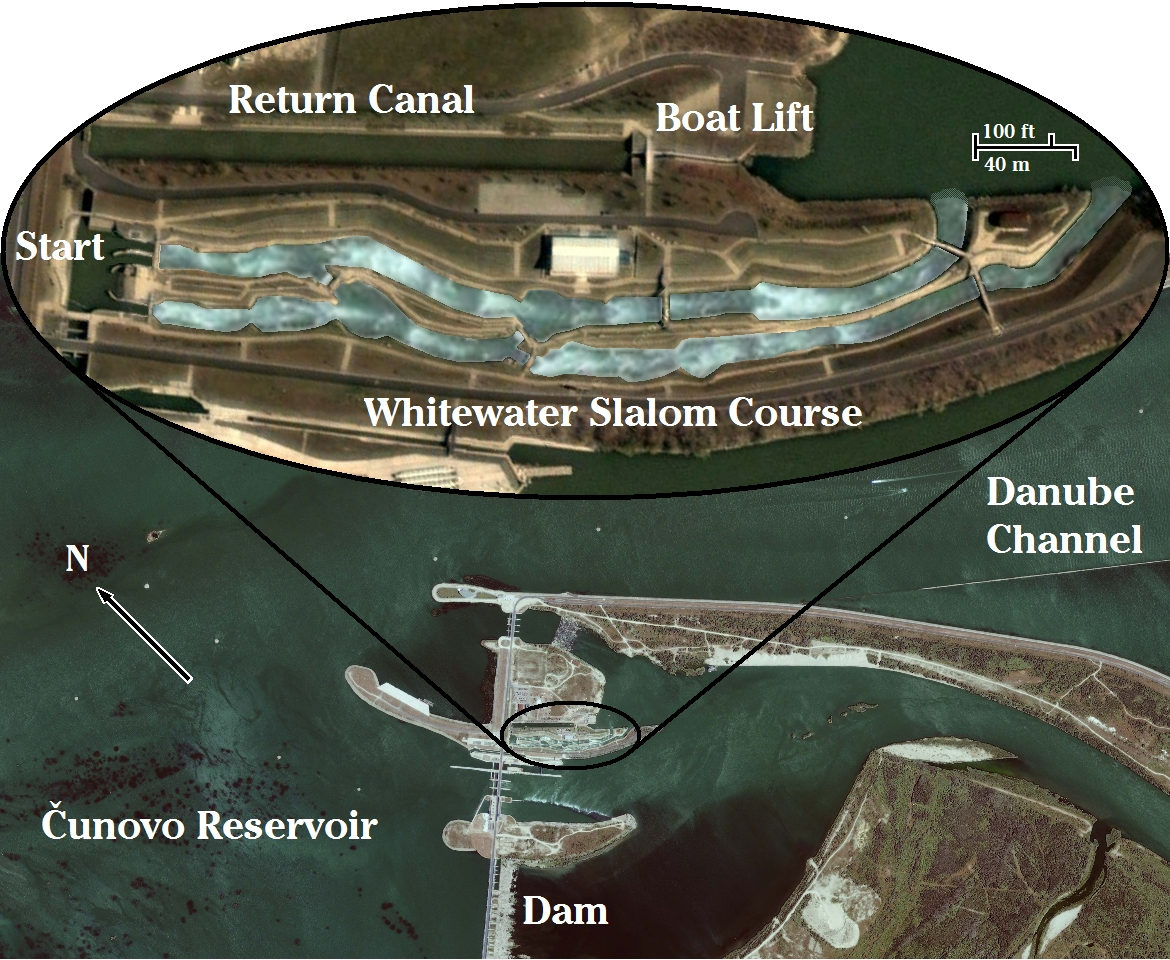 Water Sports Centre Čunovo Aerial